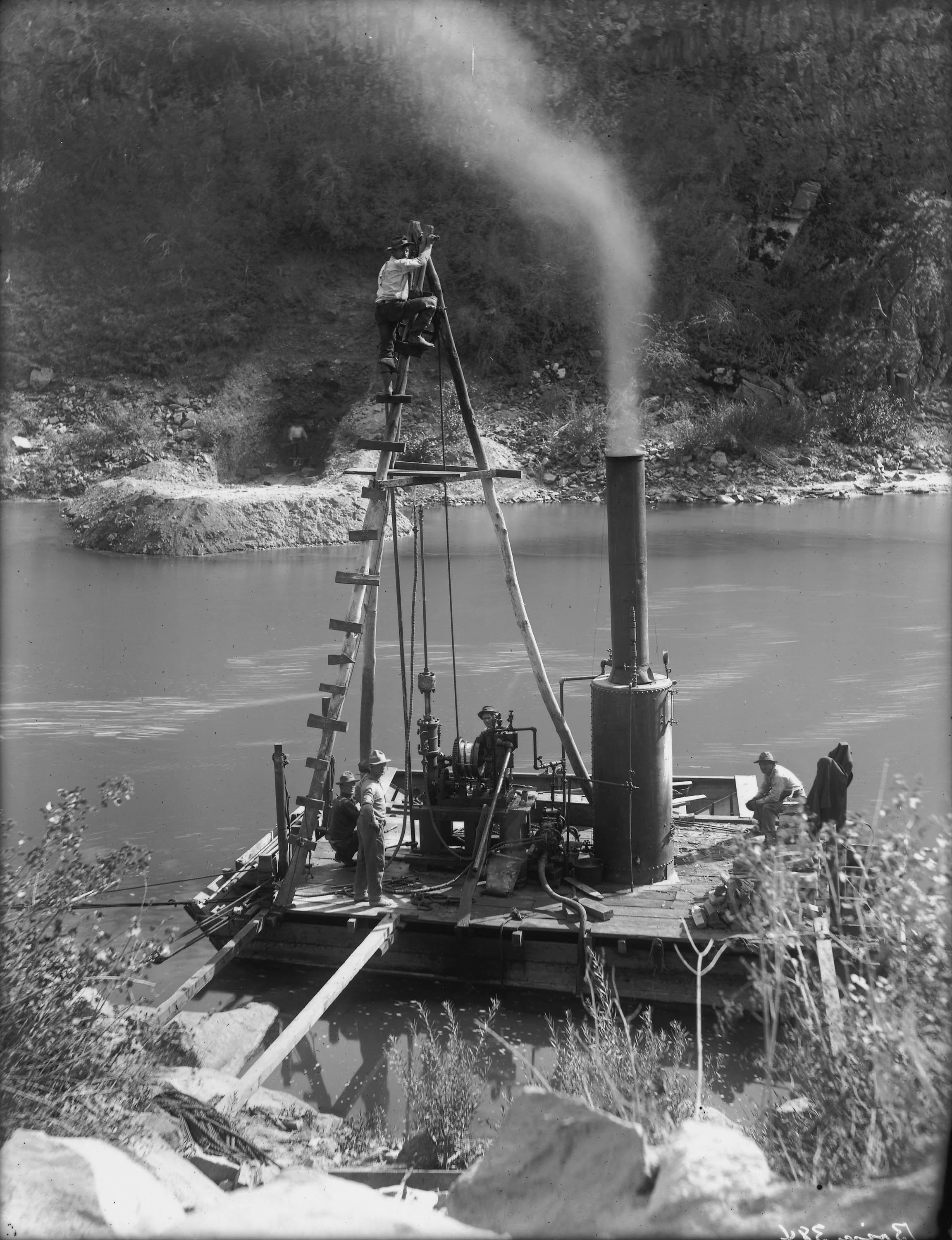 Testing the subsurface-Drilling with diamond drills, Boise Irrigation Project, Idaho and Oregon, August 1910. 1998 print from the original glass plate negative. Records of the Bureau of Reclamation. (115-JC-384)